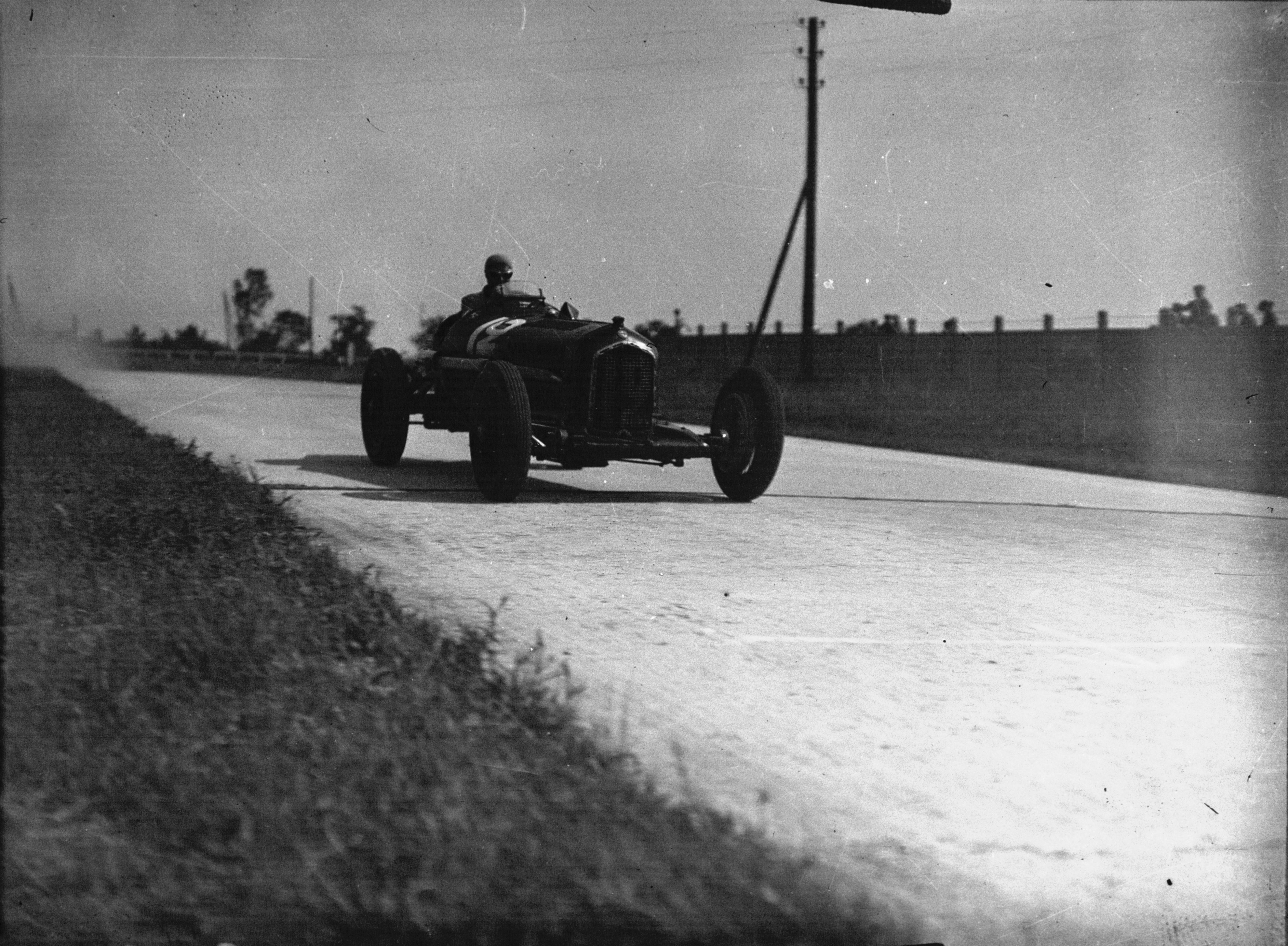 Louis Chiron at the 1934 French Grand Prix